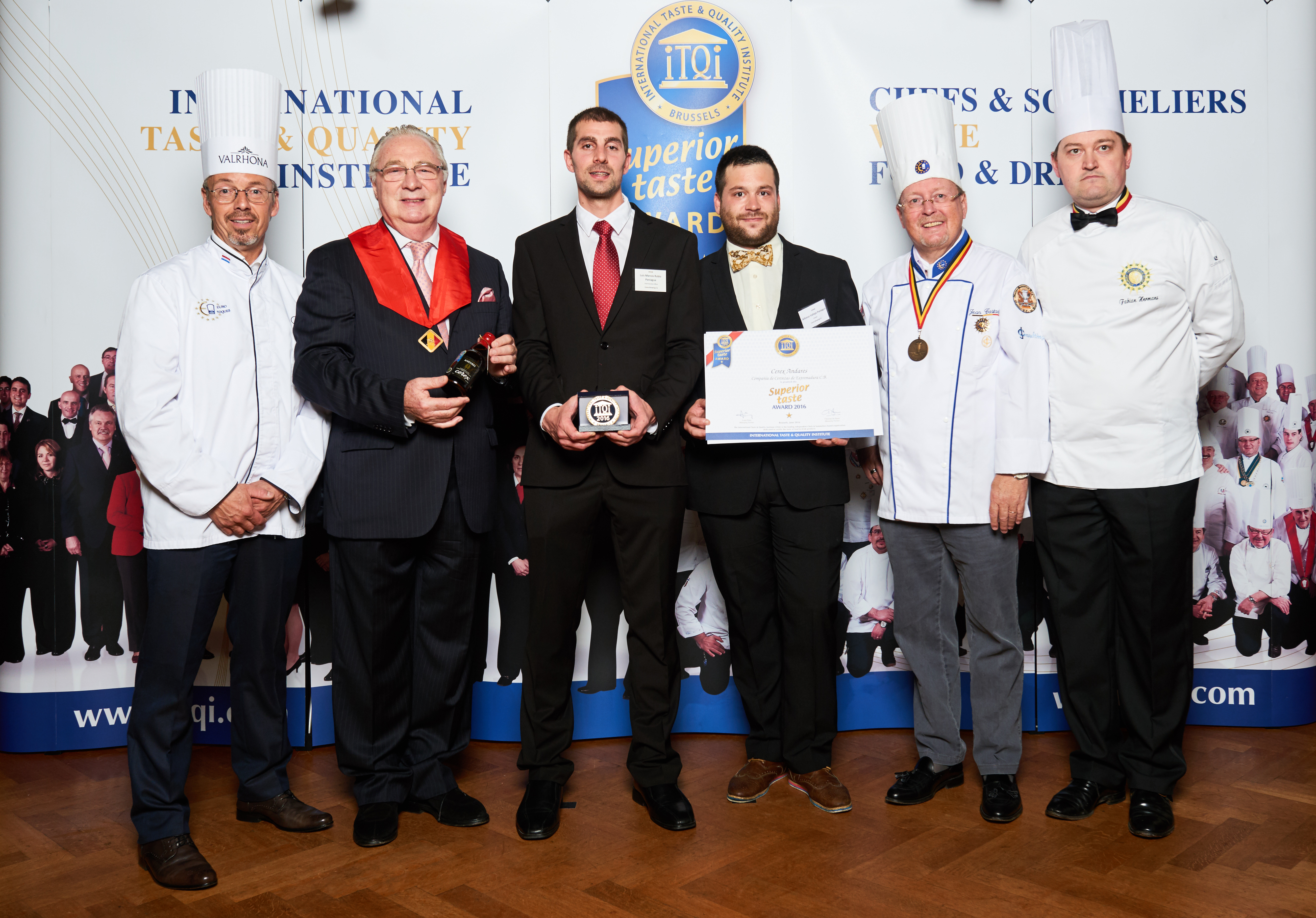 Superior Taste Award - International Taste & Quality Institute